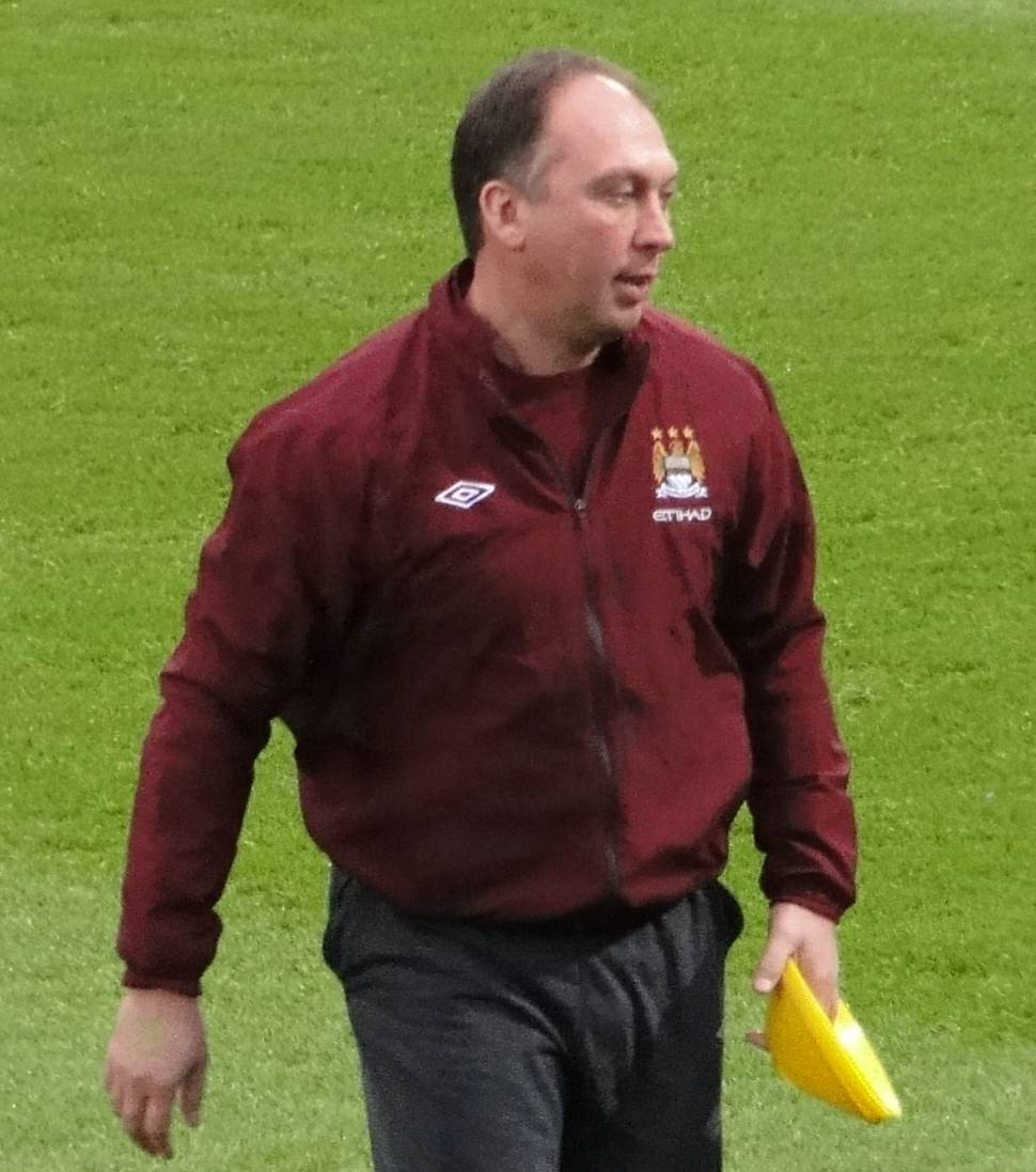 Former footballer and current coach of Manchester City, David Platt, at West Ham United's Boleyn Ground before City's game against West Ham.